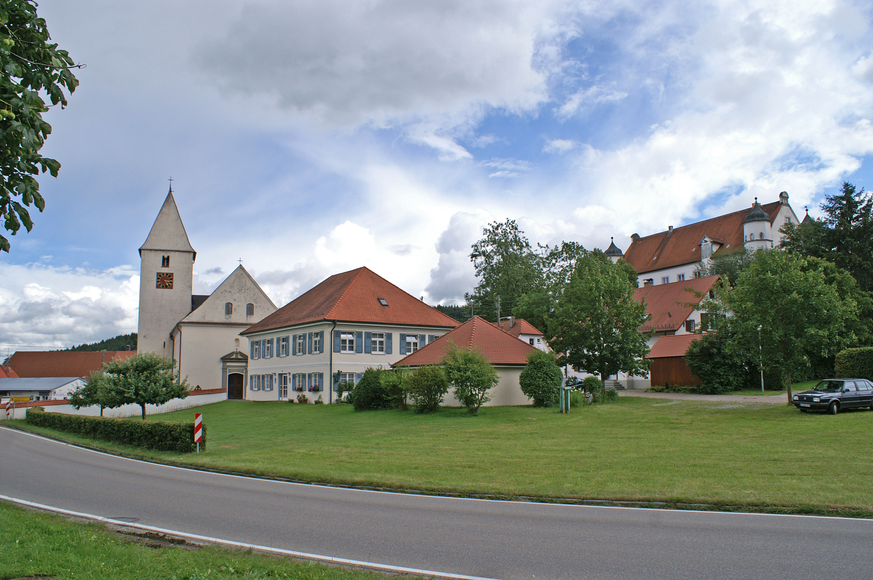 Kirche und Schloss in Altmannshofen